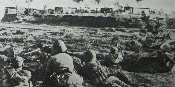 Communist troops in the Battle of Siping.国共内战中东北战场四平战役中共产党军队阵地。